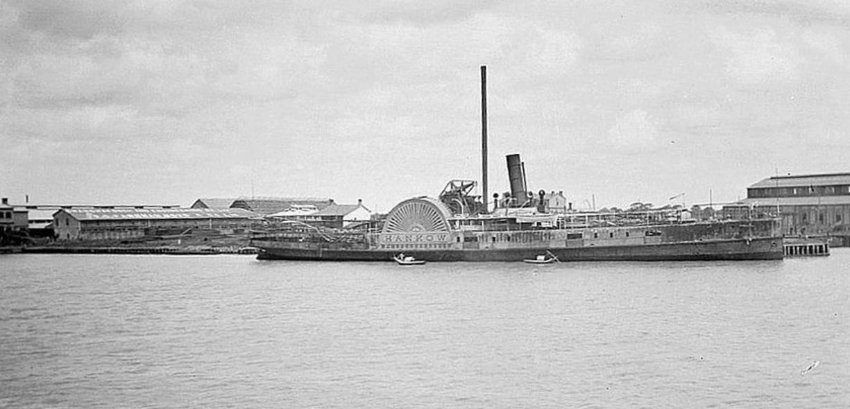 The sidewheel paddle steamer PS Hankow, launched in 1873 and completed in 1874 by A&J Inglis in Glasgow for the China Navigation Company